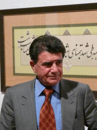 Mohamdreza Shajarian Iranian traditional musician and vocalist.